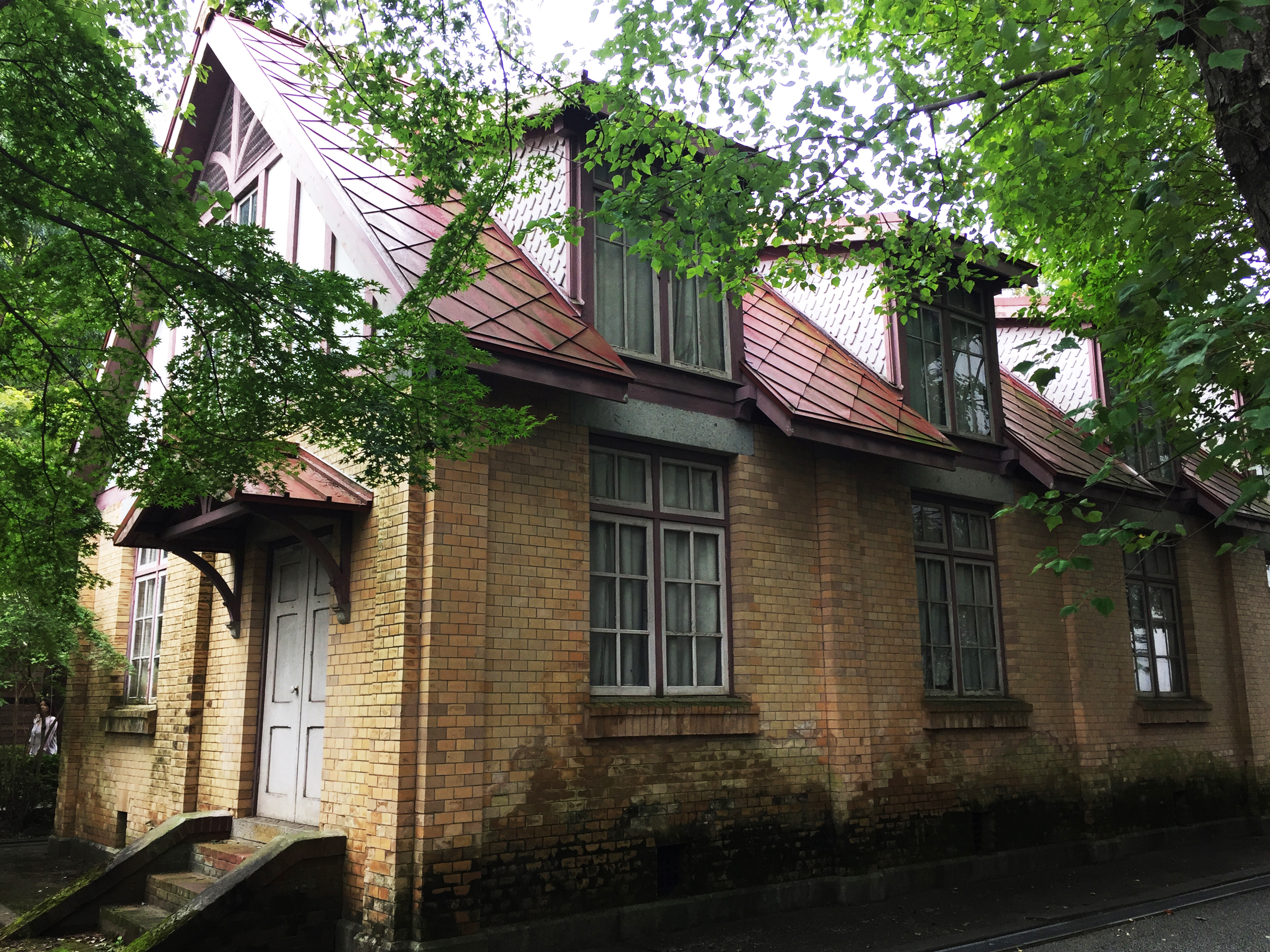 HISADA Kichinosuke's tile works, NAWA Insect Museum (Gifu, Japan)